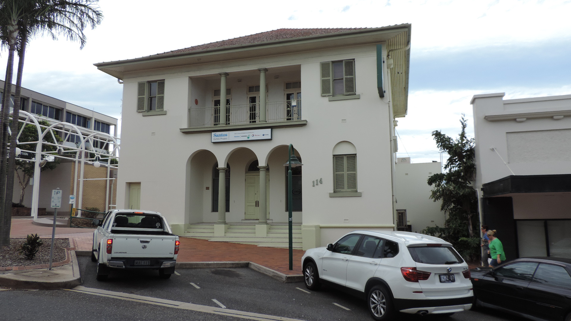 Santos House, former Commonwealth Bank (front view), 114 Goondoon Street, Gladstone, 2014